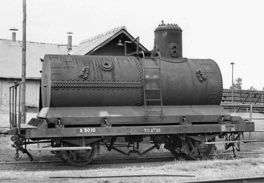 Réseau Breton - Wagon à citerne amovible S 3010 au dépôt - CARHAIX (29)